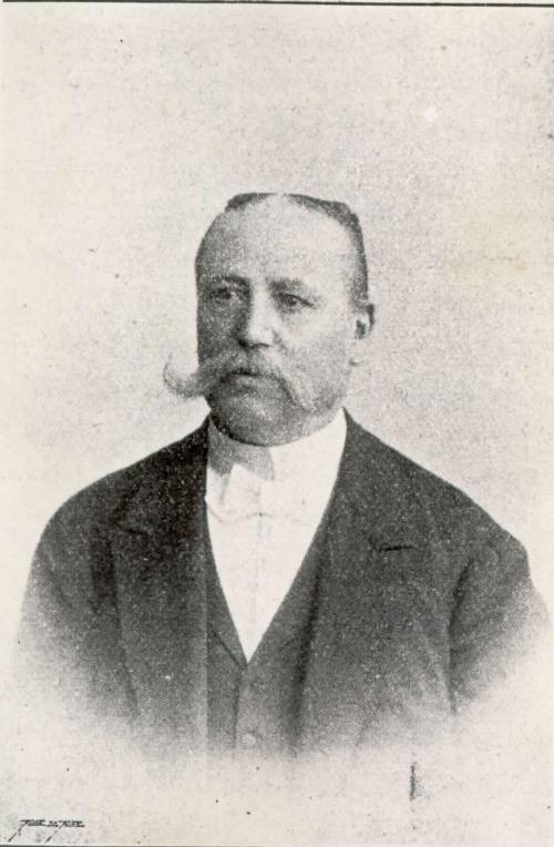 Ivan Nabergoj (1835-1902)